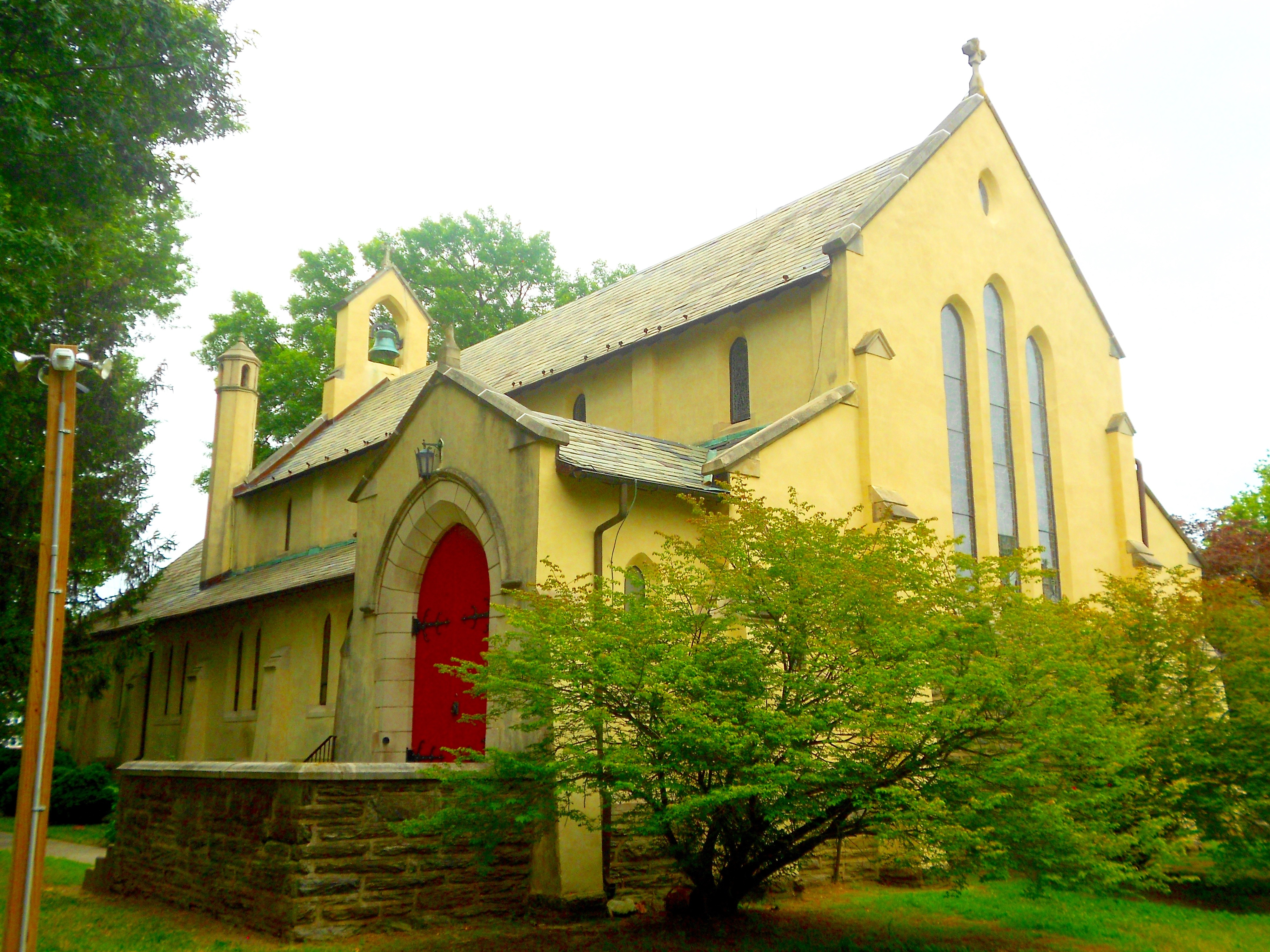 Church of Our Merciful Saviour in Penn's Grove, New Jersey. Datestone says 1916. Interesting small bell tower